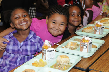 Students are happy to be back together at school with a new chef and healthier lunches at Baker County K-12 School in Newton, Ga.